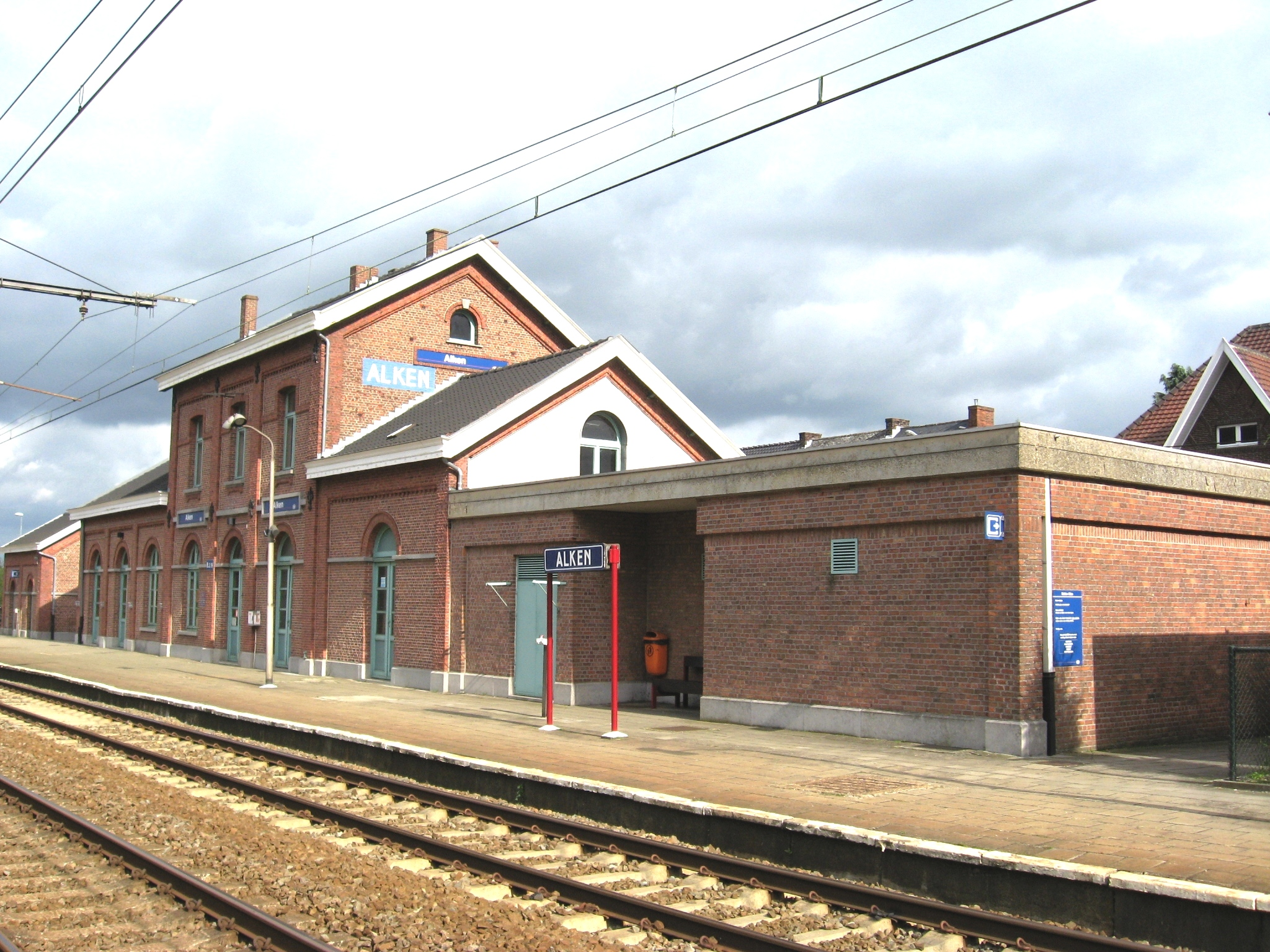 Train station of Alken, Limburg, Belgium